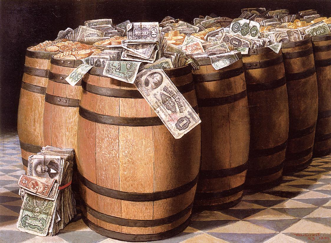 Money to Burn